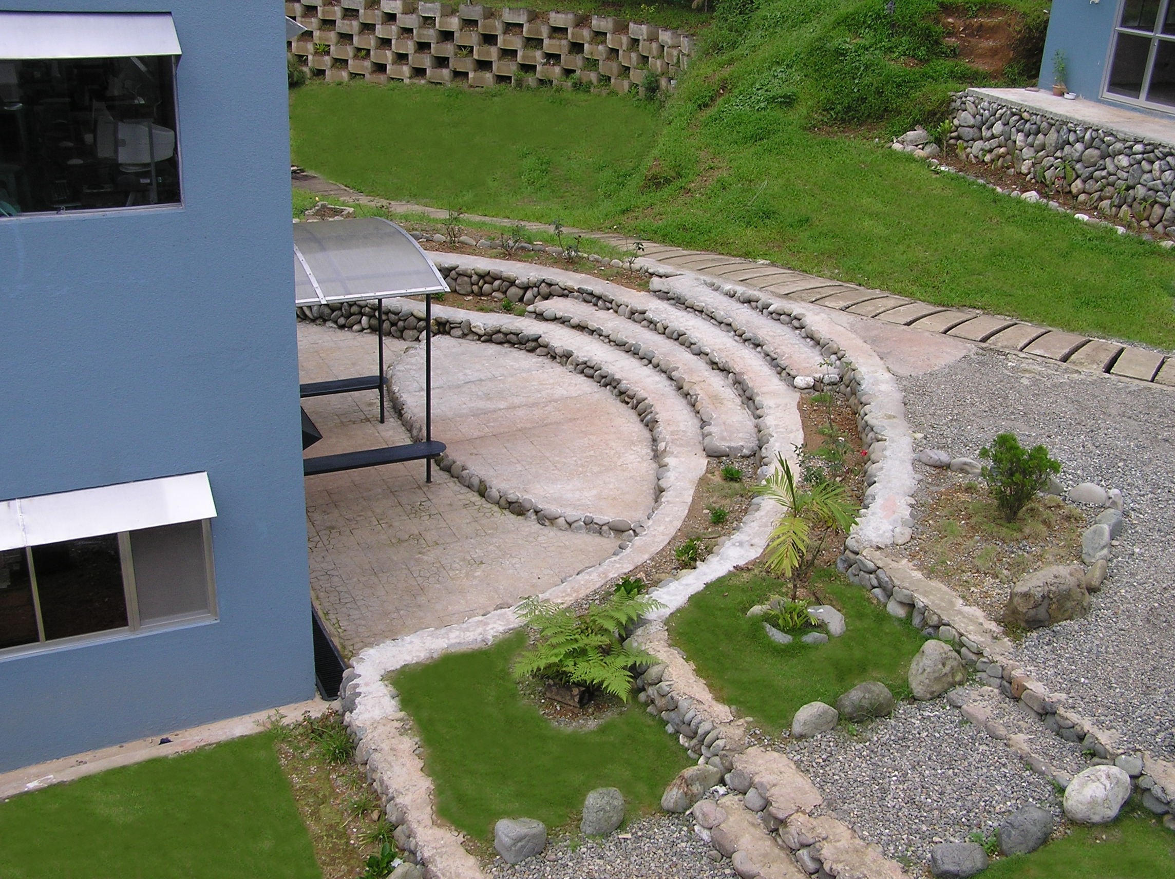 Philippine College of Ministry, Baguio City, Philippines. The entryway to the Library Building looking toward the bonfire circle.